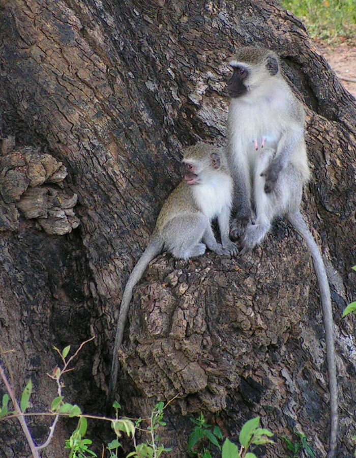 Vervet Monkeys (Chlorocebus pygerythrus) taken in Kruger Park, South Africa